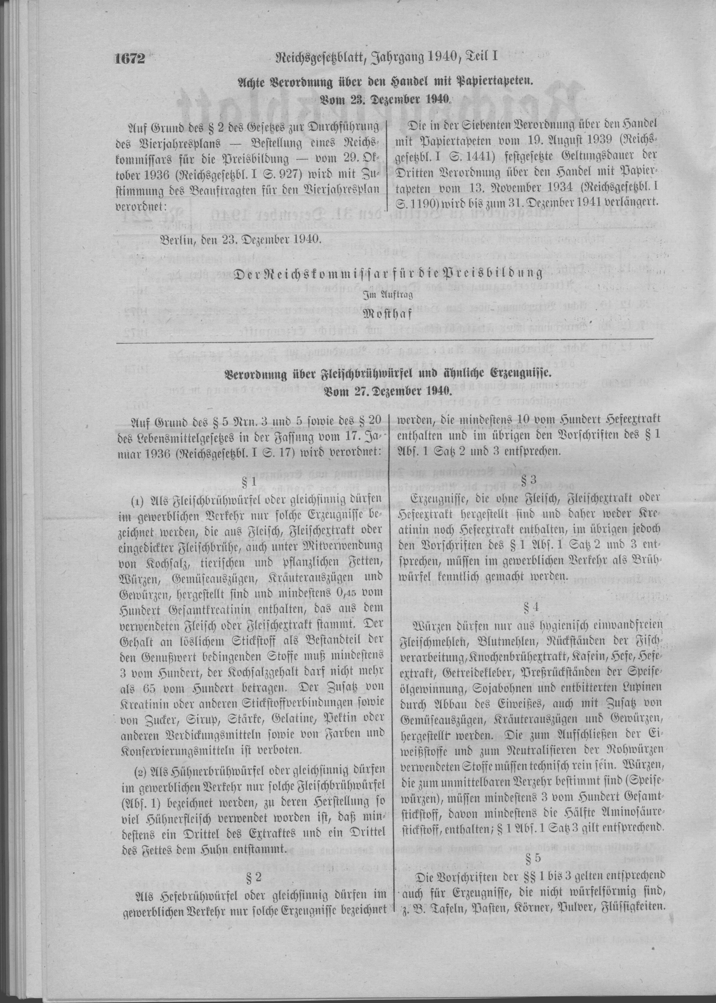 Scan from the Imperial Law Gazette of Germany, 1940, part 1